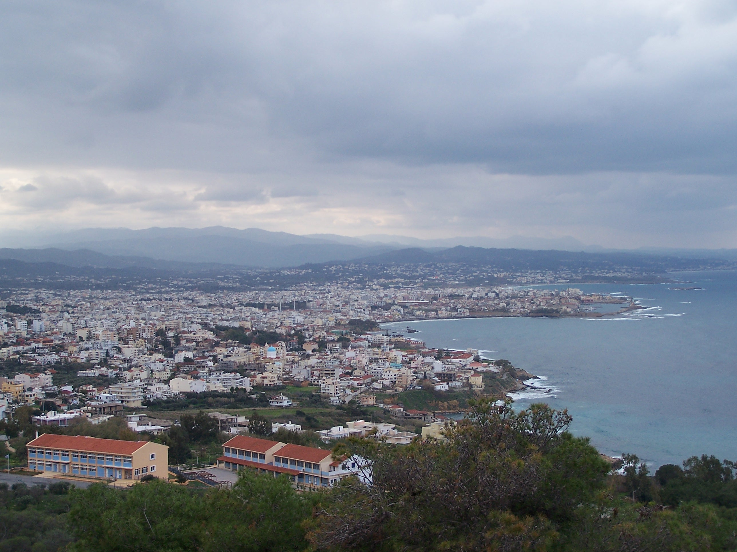 Photo of Chania City Crete from Akrotiri.